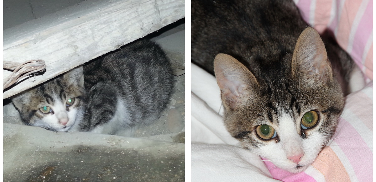 Transformation of a stray kitten in 3 weeks after adoption